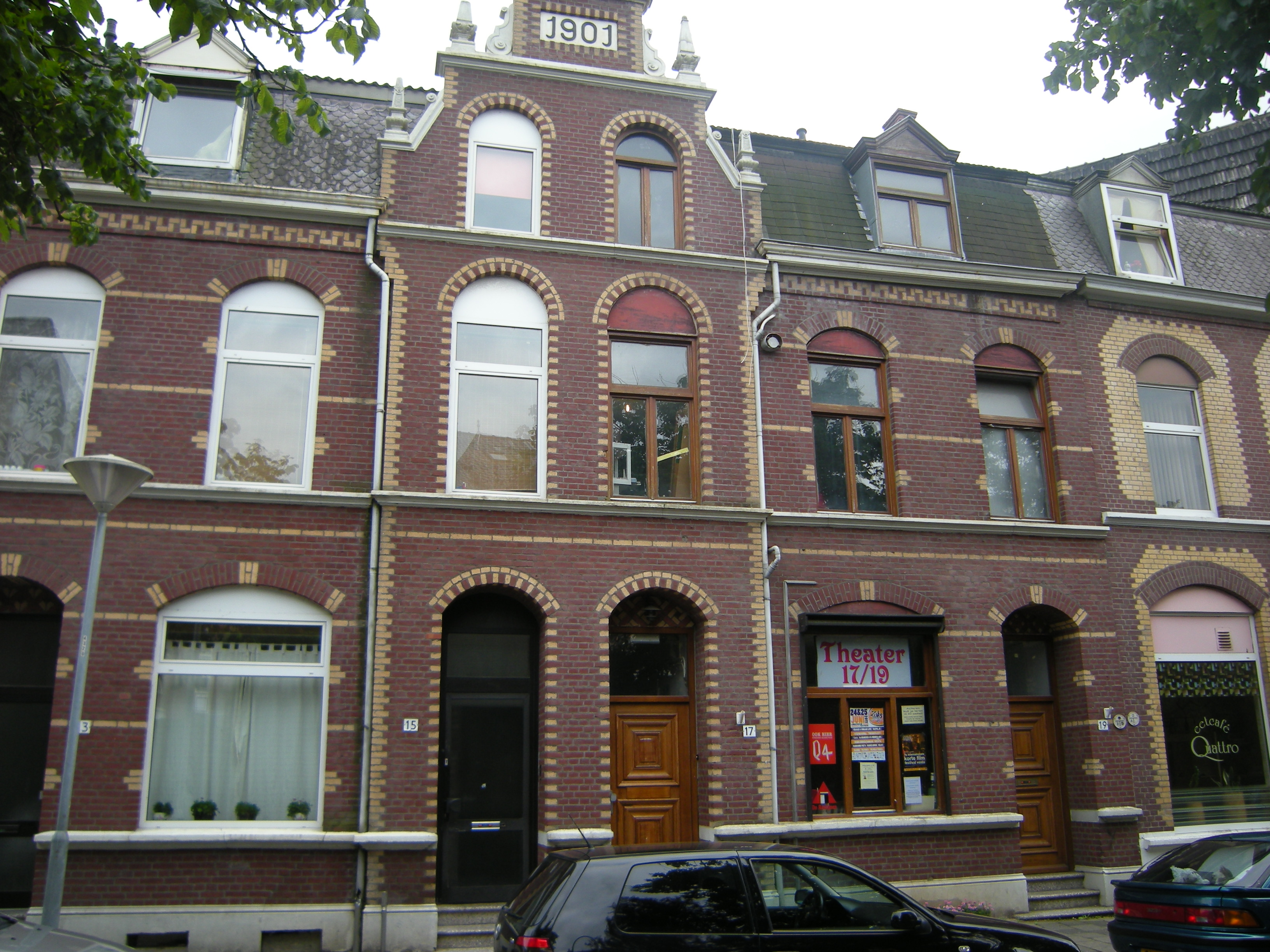 17-19 Theatre